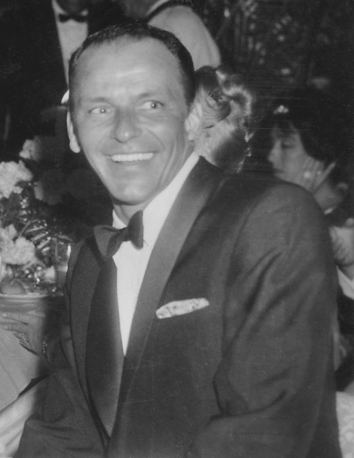 Frank Sinatra at Girl's Town Ball in Florida, March 12, 1960